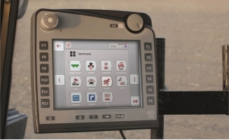 terminal